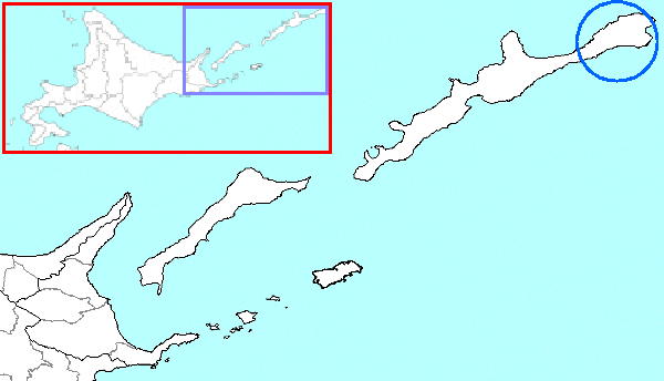 The location of Shibetoro in Nemuro Subprefecture, Hokkaido Prefecture, Japan.